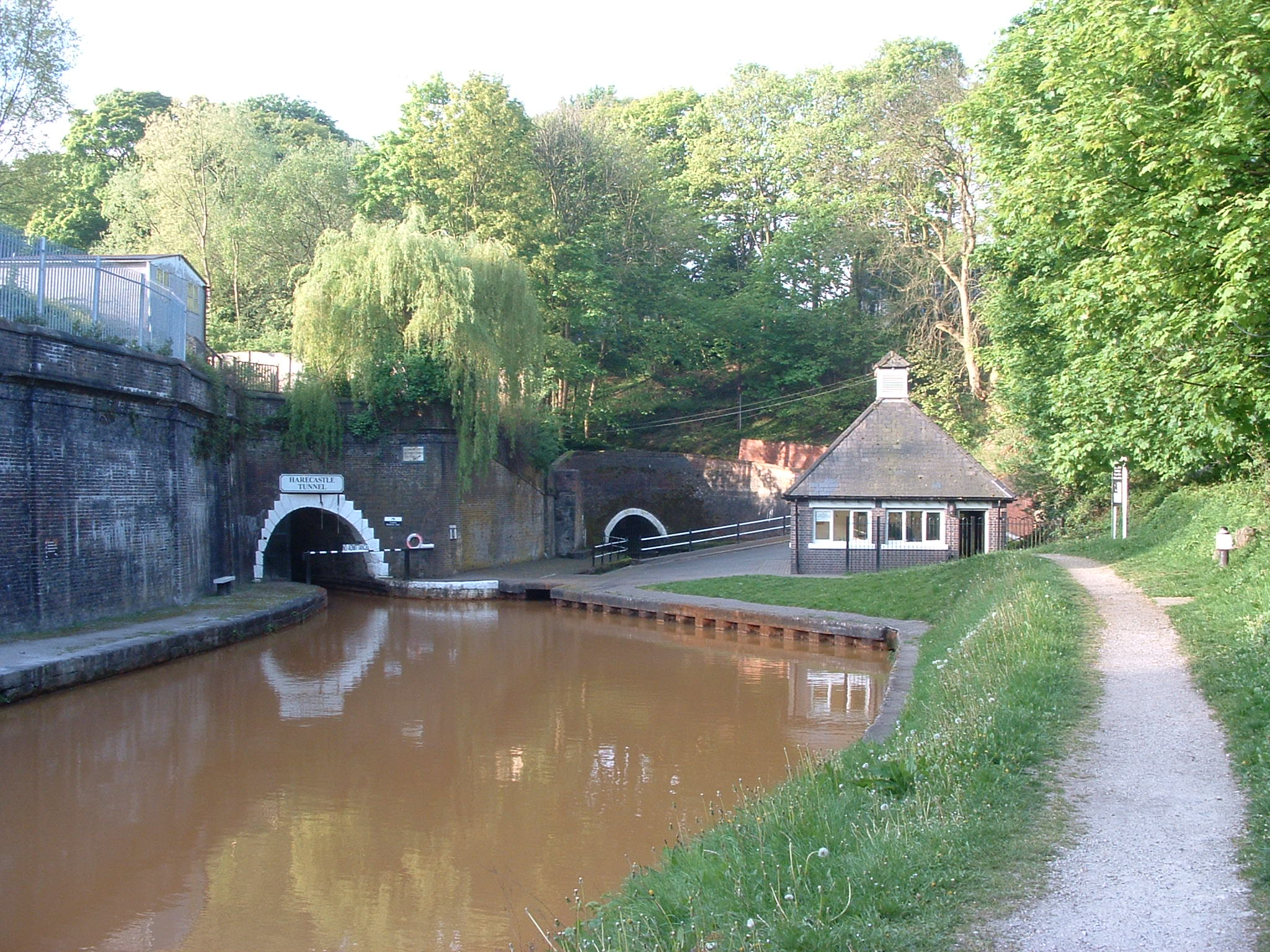 Uploaded by photographer, Akke Monasso